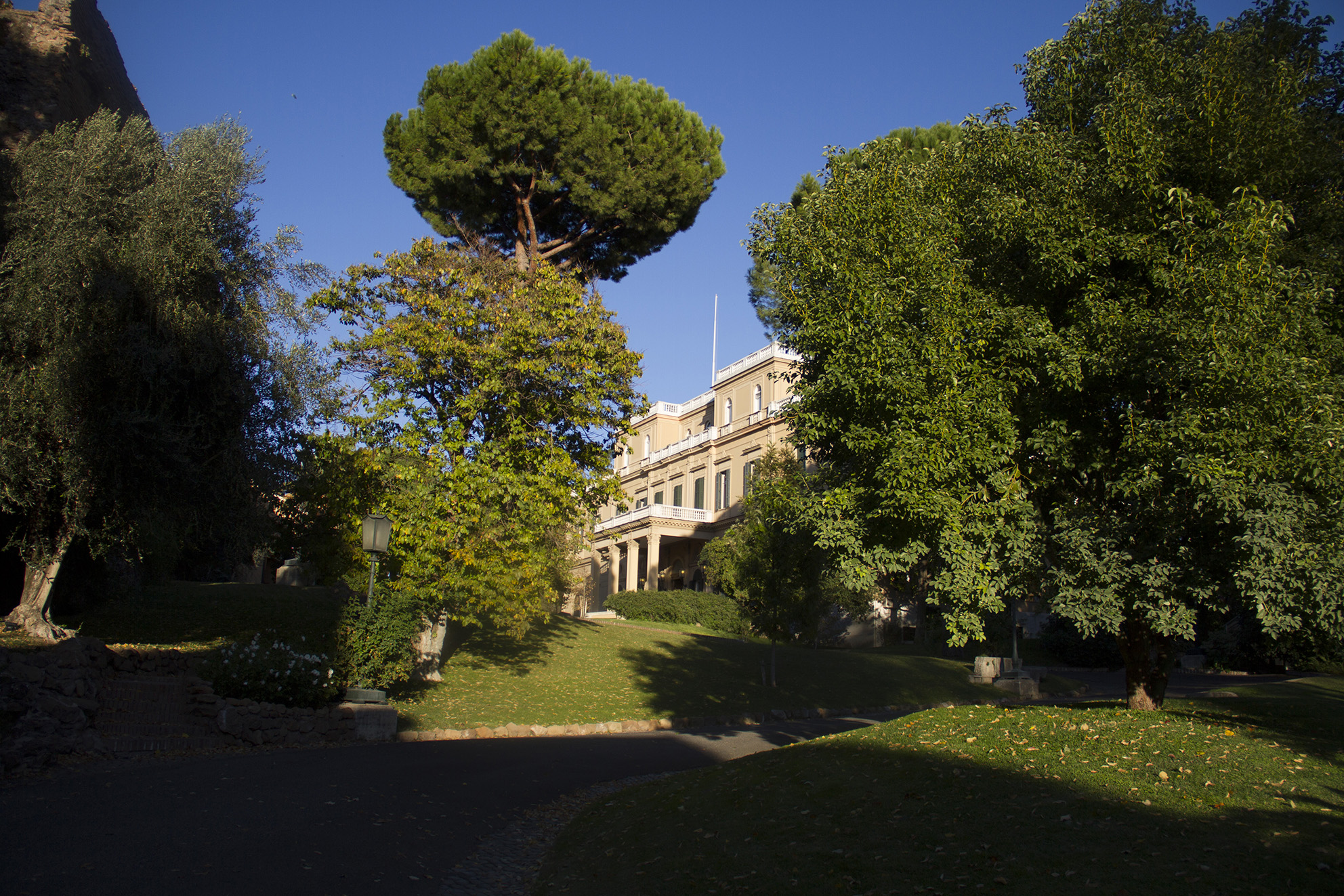 Rome 24 October 2017 - Ambassador Jill Morris hosted the launch of the new editorial project directed by Francesco De Leo il Club . Good luck Francesco! (c) Photos by Ubaldo Cillo.